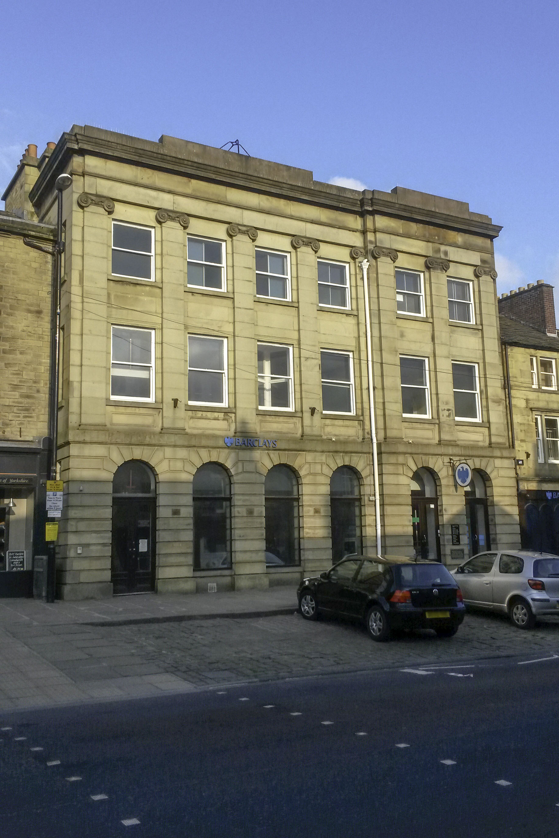 Barclays Bank, Skipton, North Yorkshire, England. A grade II listed building and formerly the head office of the Craven Bank.